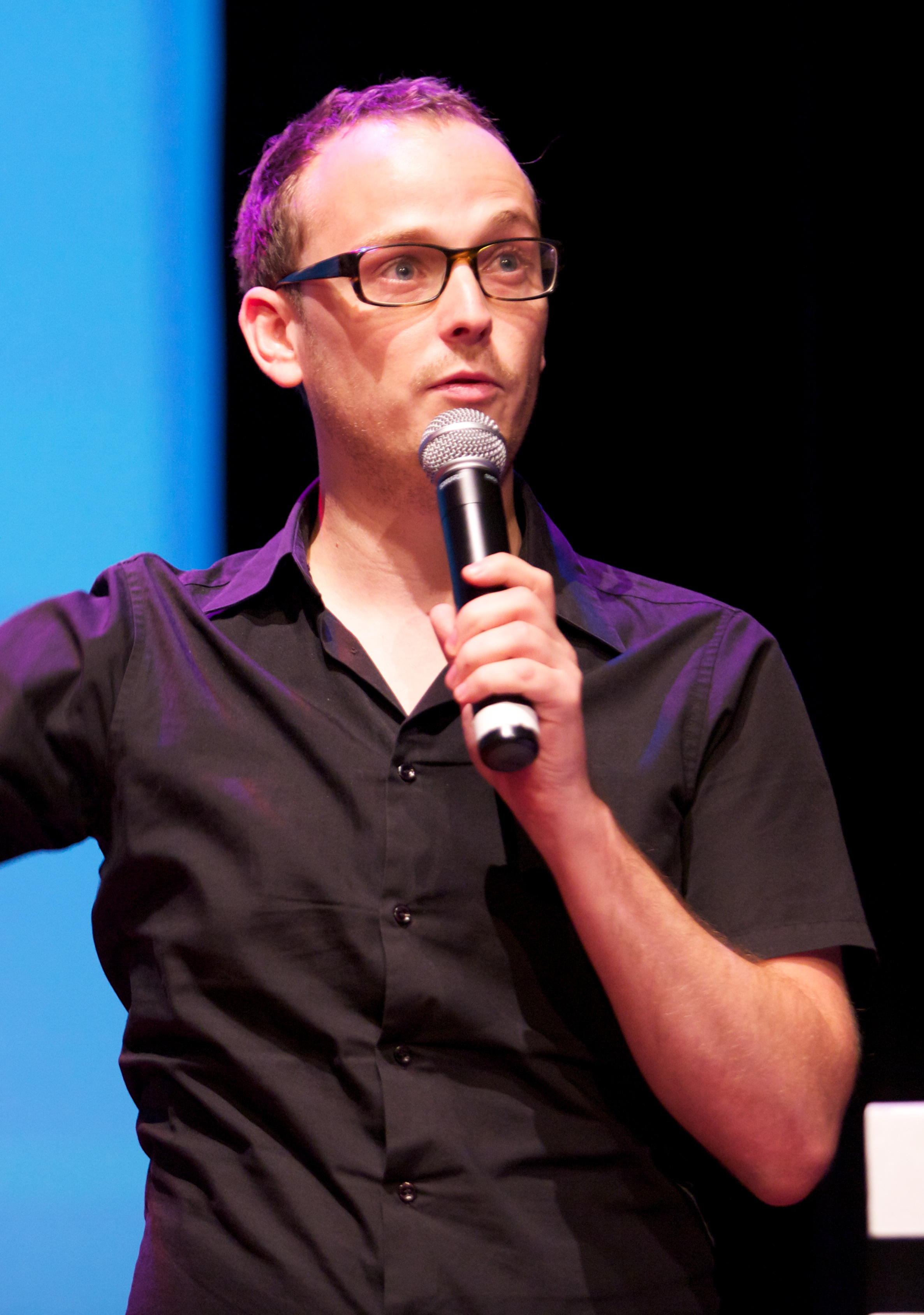 Incubate Pirate Conference 2010